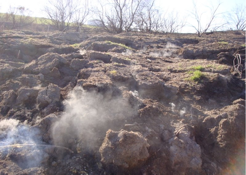 Peat fire in the National Park of Las Tablas de Daimiel, Spain.